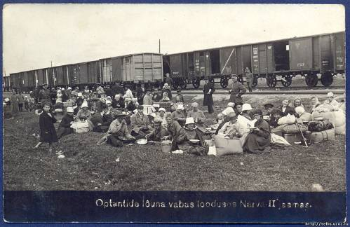 Estonian optants at Narva-II station (now Ivangorod-Narvsky station)